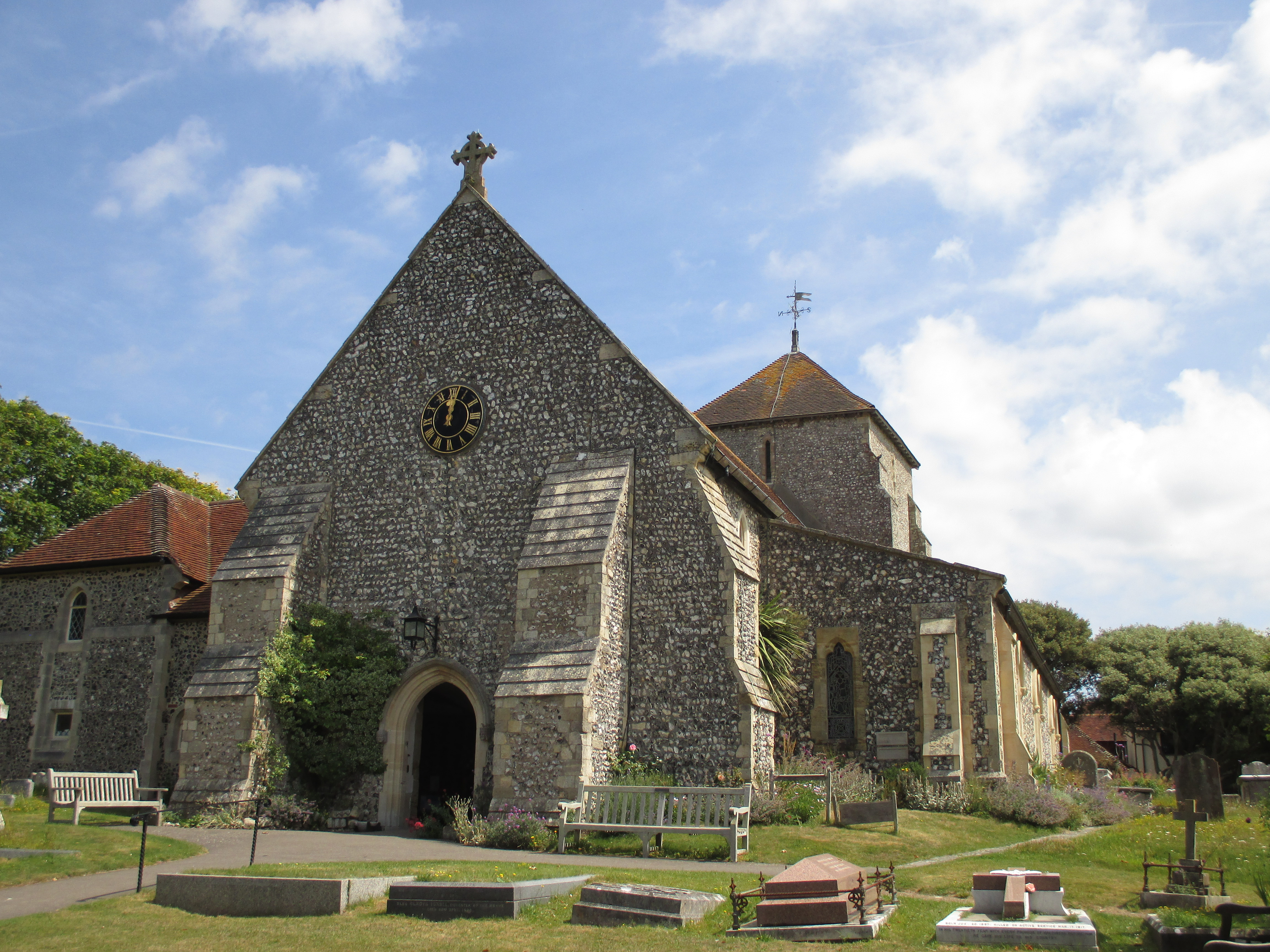 St Margaret's Church, Rottingdean, East Sussex, seen from the west.